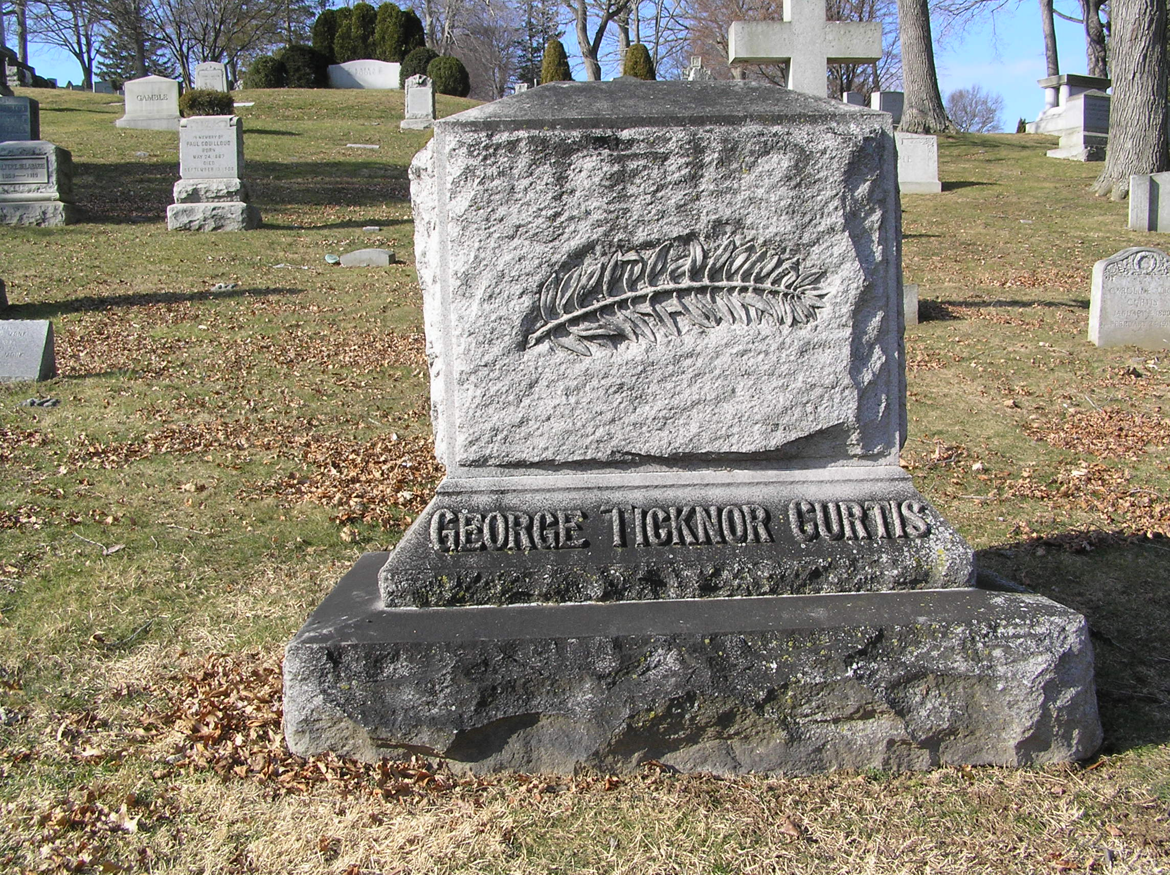 The tombstone of George Ticknor Curtis in Kensico Cemetery, Valhalla, NY.